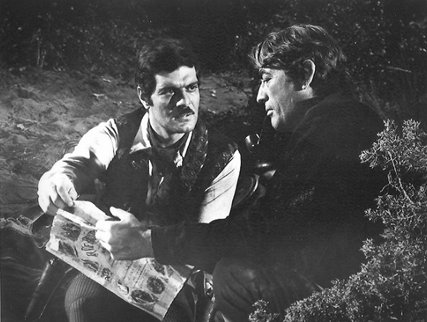 Promotional photo of Omar Sharif and Gregory Peck in the American western film Mackenna's Gold (1969).